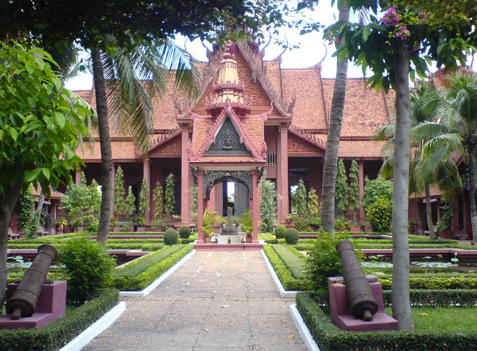 The National Museum, Phnom Penh, Cambodia - seen from inside looking towards the entrance